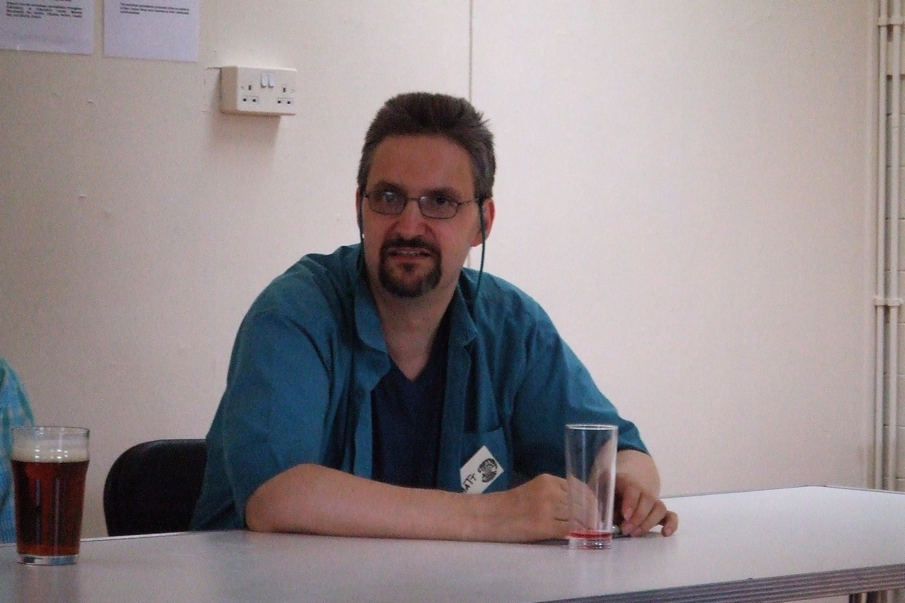 Comics artist D'Israeli in Oxford, England